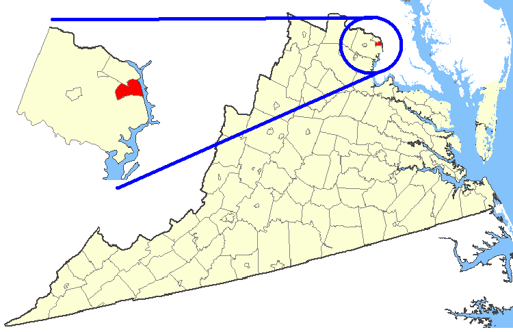 Maps of counties in Virginia